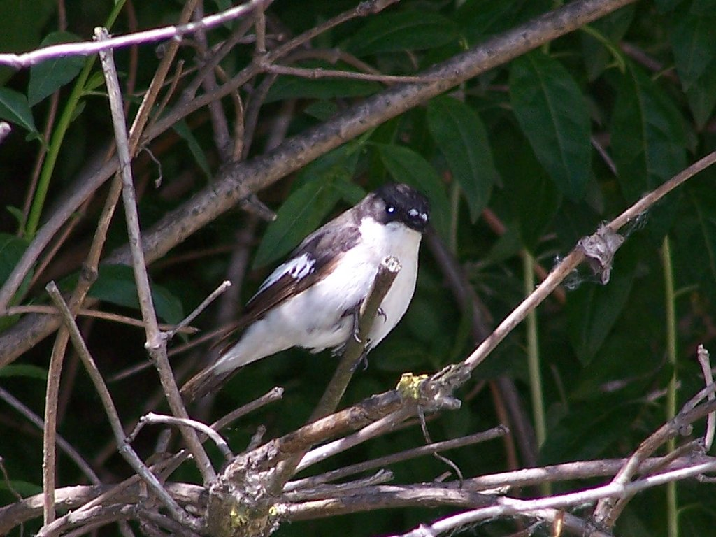 Ficedula hypoleuca, Bug river bank, Wyszków, Poland. It came close enough to take this picture with our amateur Kodak camera. Iric kept talking to me (sudden silence could scare it) and I shot the picture.